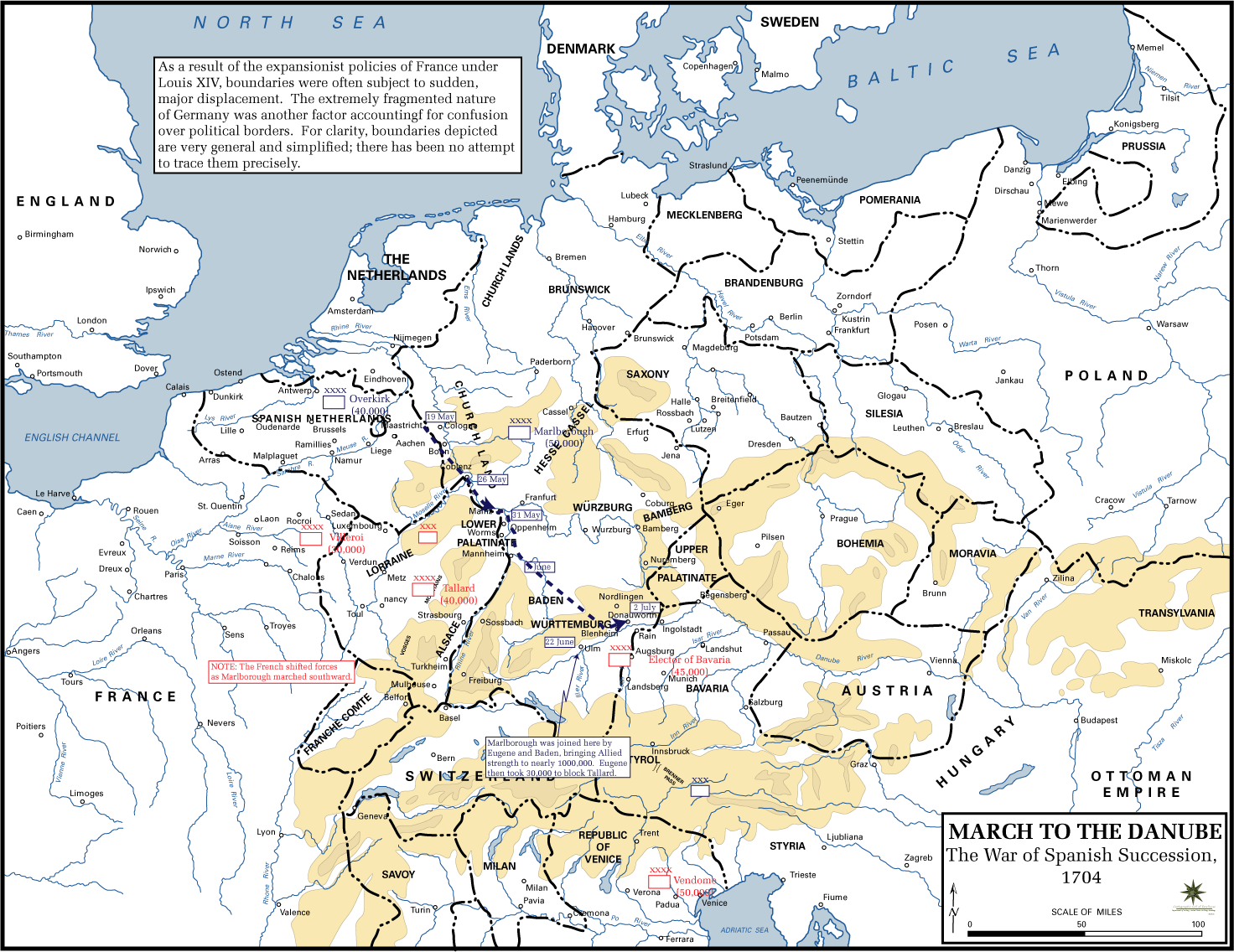 Marlborough's march to the Danube